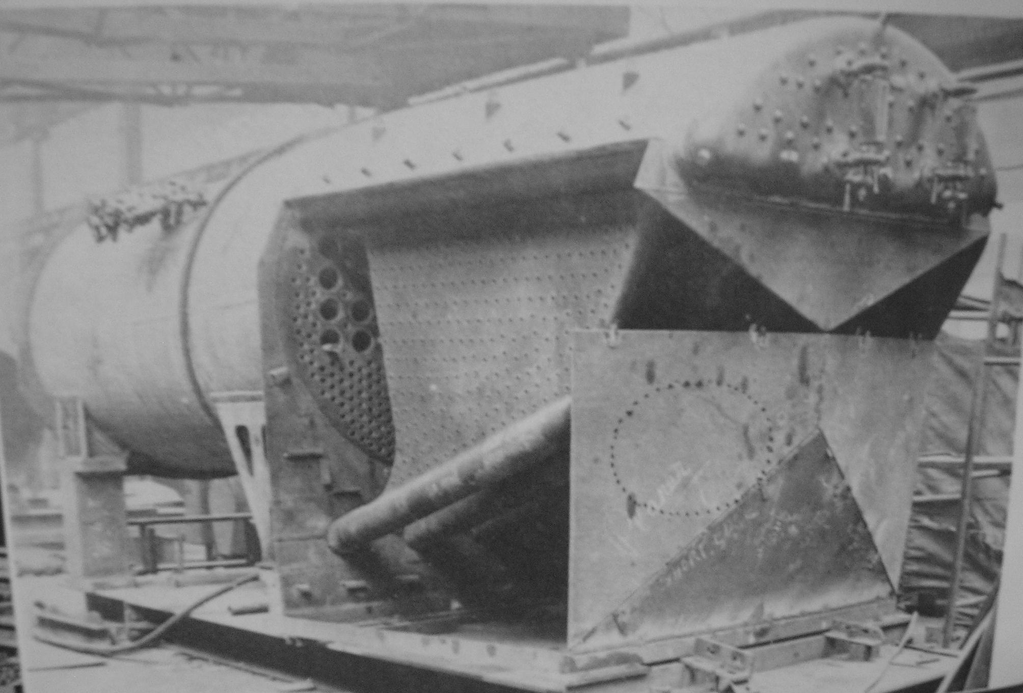 Official photograph of the Leader boiler under construction at Brighton works. Taken in early 1949 by British Railways, a nationalised (UK government) concern. Balck & white version of Leader boiler under construction.jpg